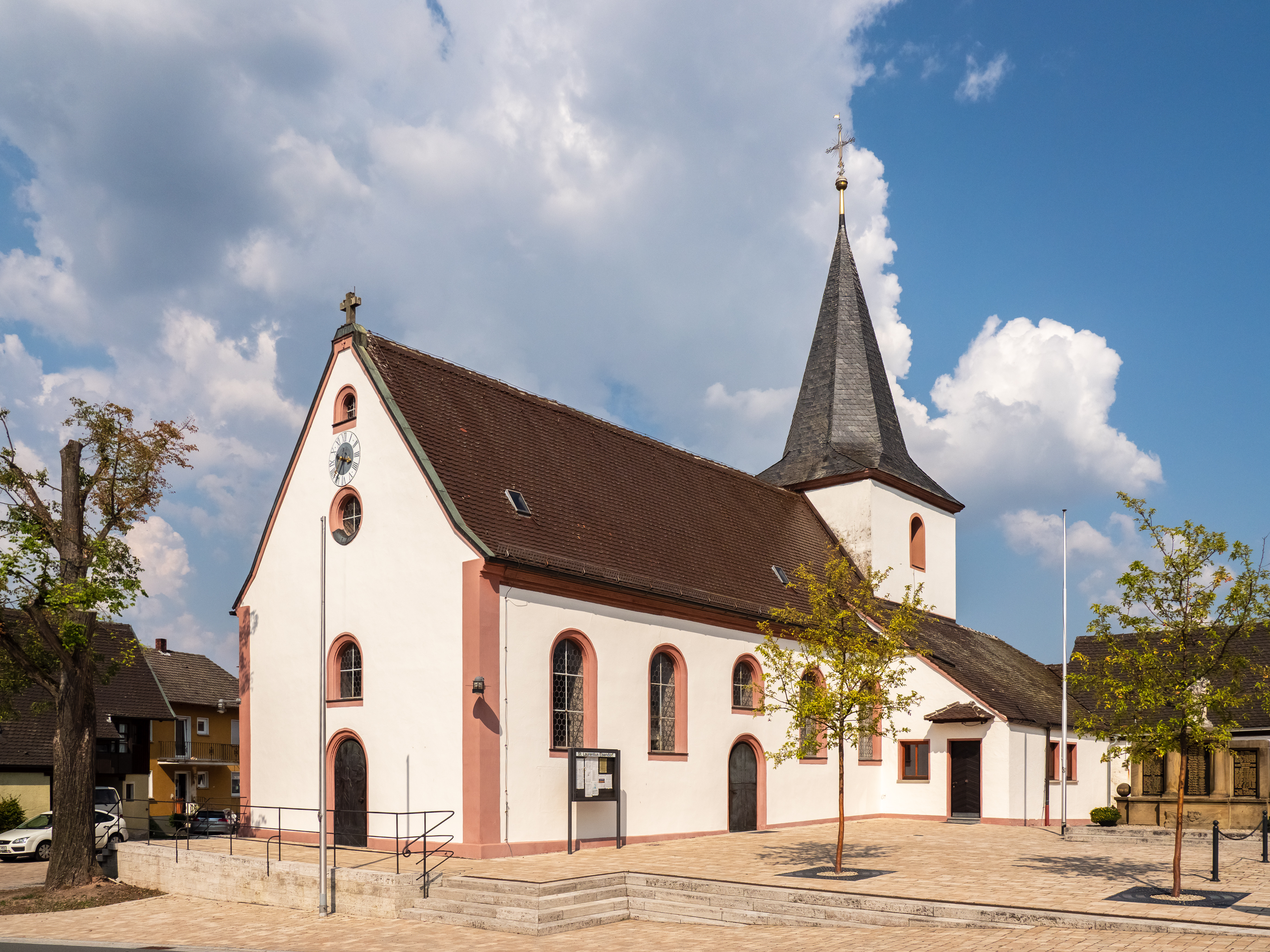 Catholic curate church St. Laurentius in Elsendorf near Schlüsselfeld